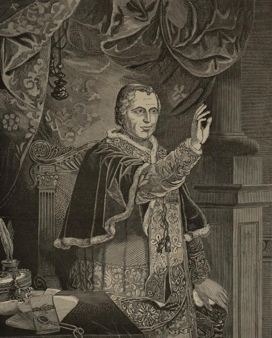 A portrait from the Welsh Portrait Collection at the National Library of Wales. Depicted person: Pius IX – 255th Pope of the Catholic Church